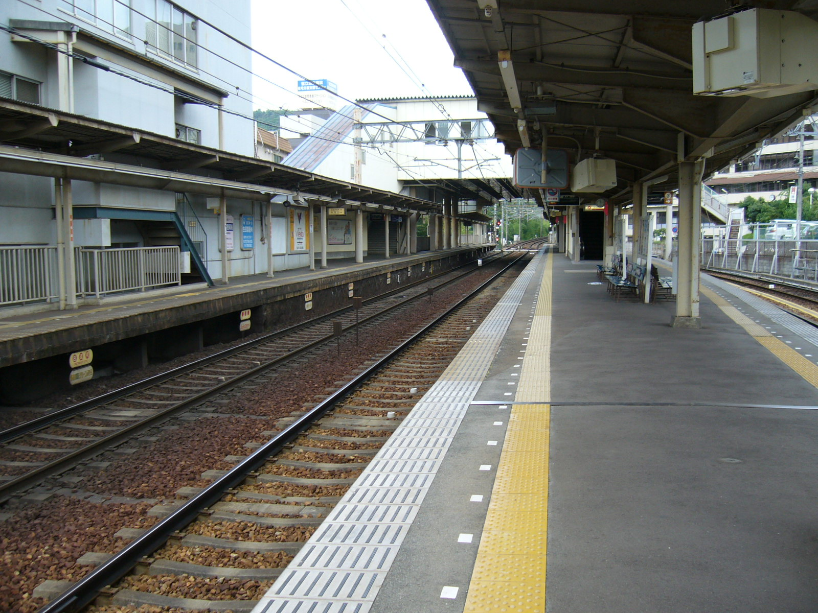 能勢電鉄平野駅ホーム(Noseden Herano station_platform)